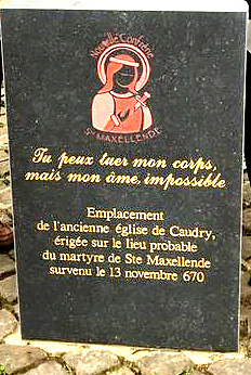 Stele of Saint-Maxellende in Caudry, France. (2010's)